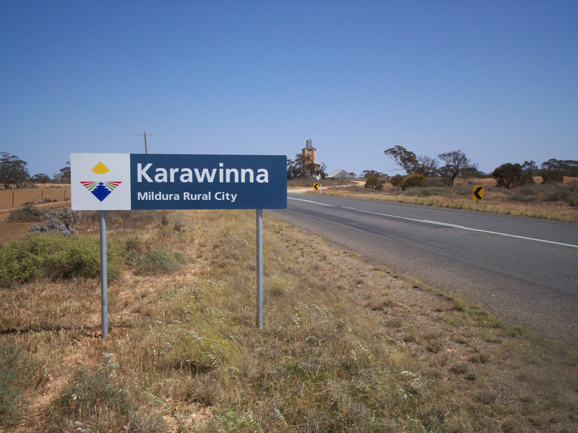 Karawinna, Victoria, Photograph taken by myself, September 30, 2007.